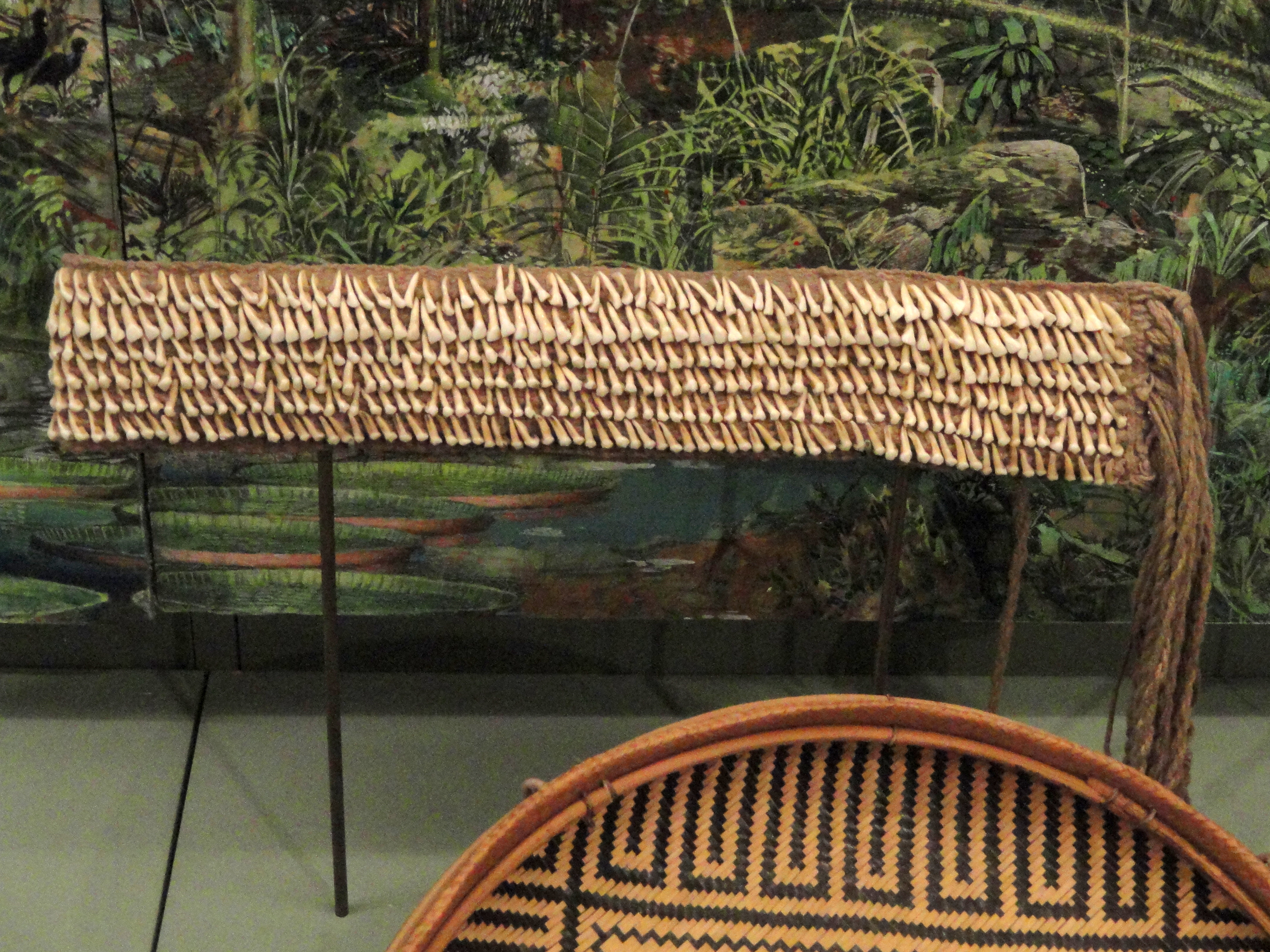 Exhibit in the South American collection of the American Museum of Natural History, Manhattan, New York City, New York, USA.